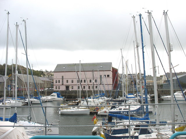 Doc Victoria and the Caernarfon Archive Office The Archive house is a former dock warehouse